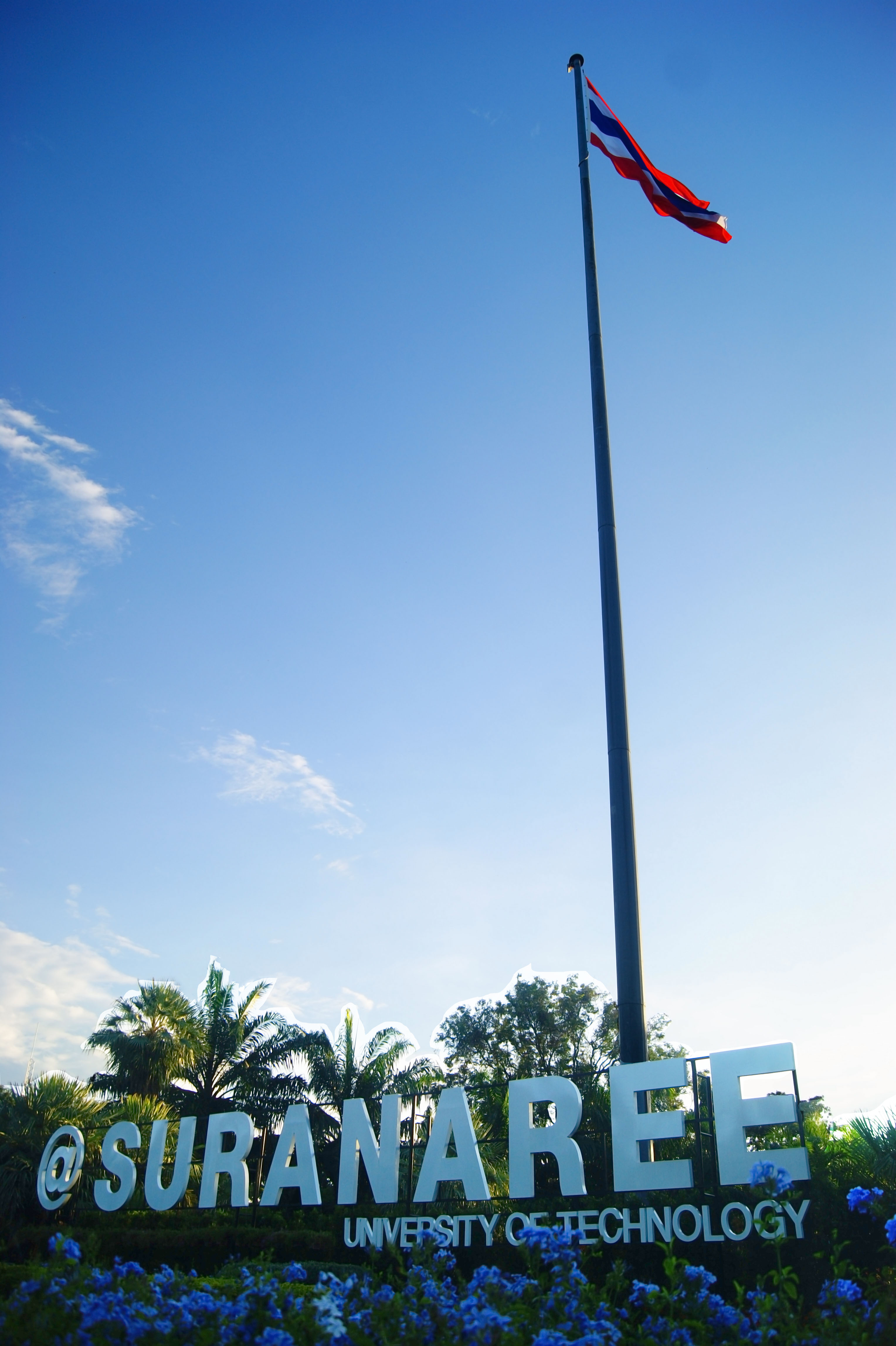 At SUT Flag